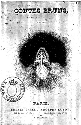 Contes Bruns cover. Art by T. Johannot.